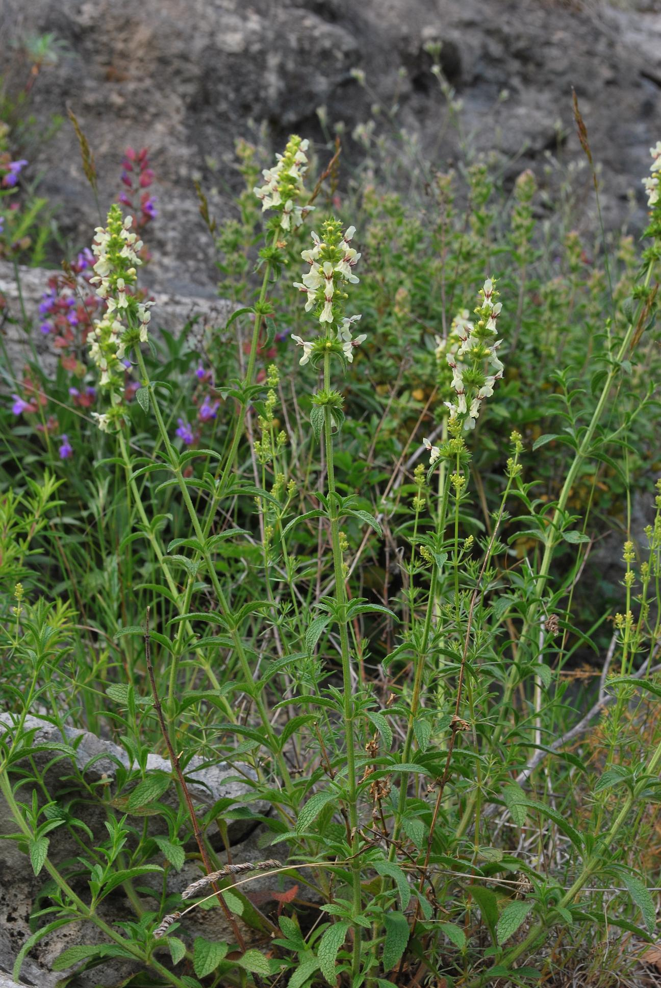 Stachys recta